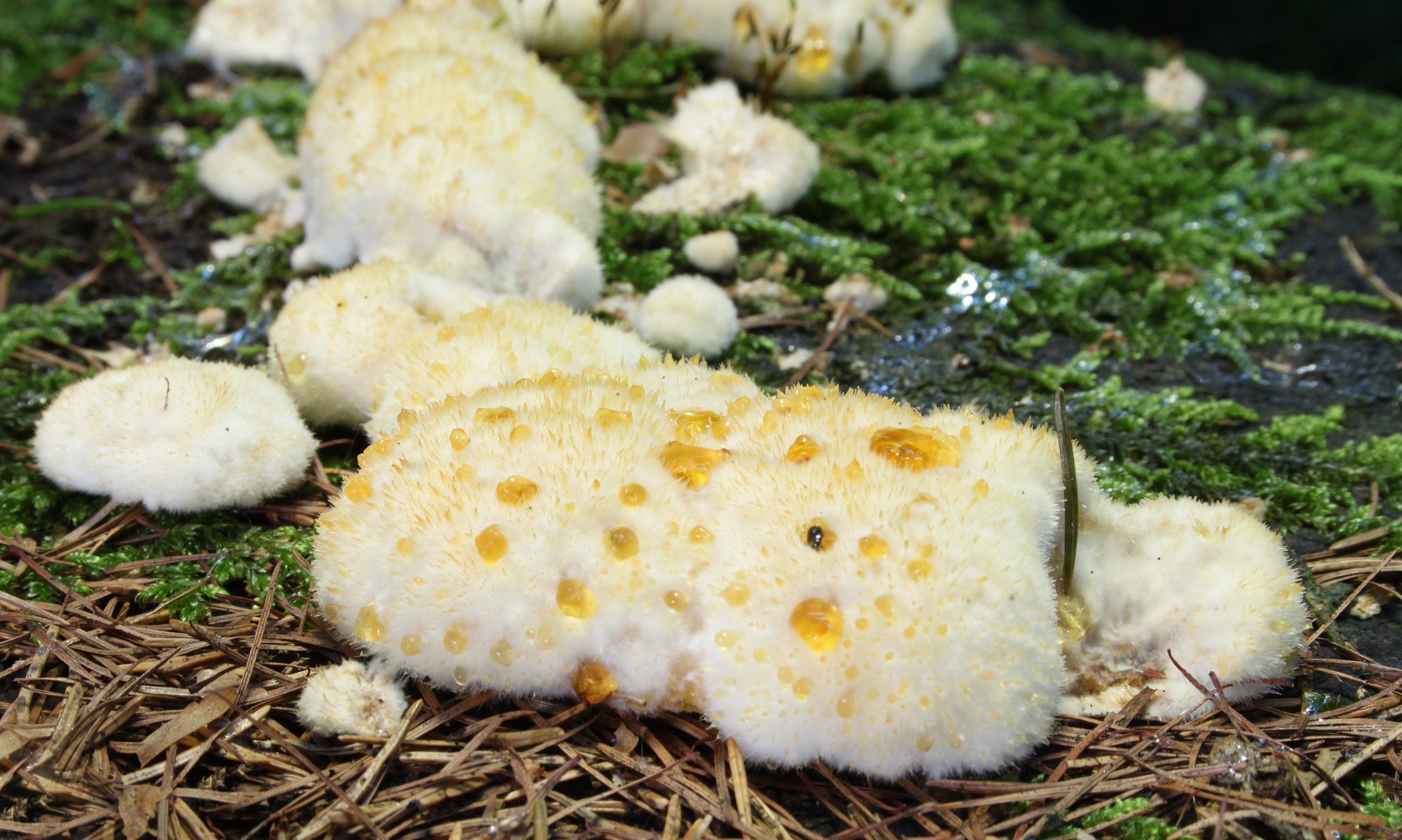 Ptychogaster fuliginoides (Phase of Oligoporus ptychogaster with own scientific determination), Family: Polyporaceae, Location: Germany, Biberach